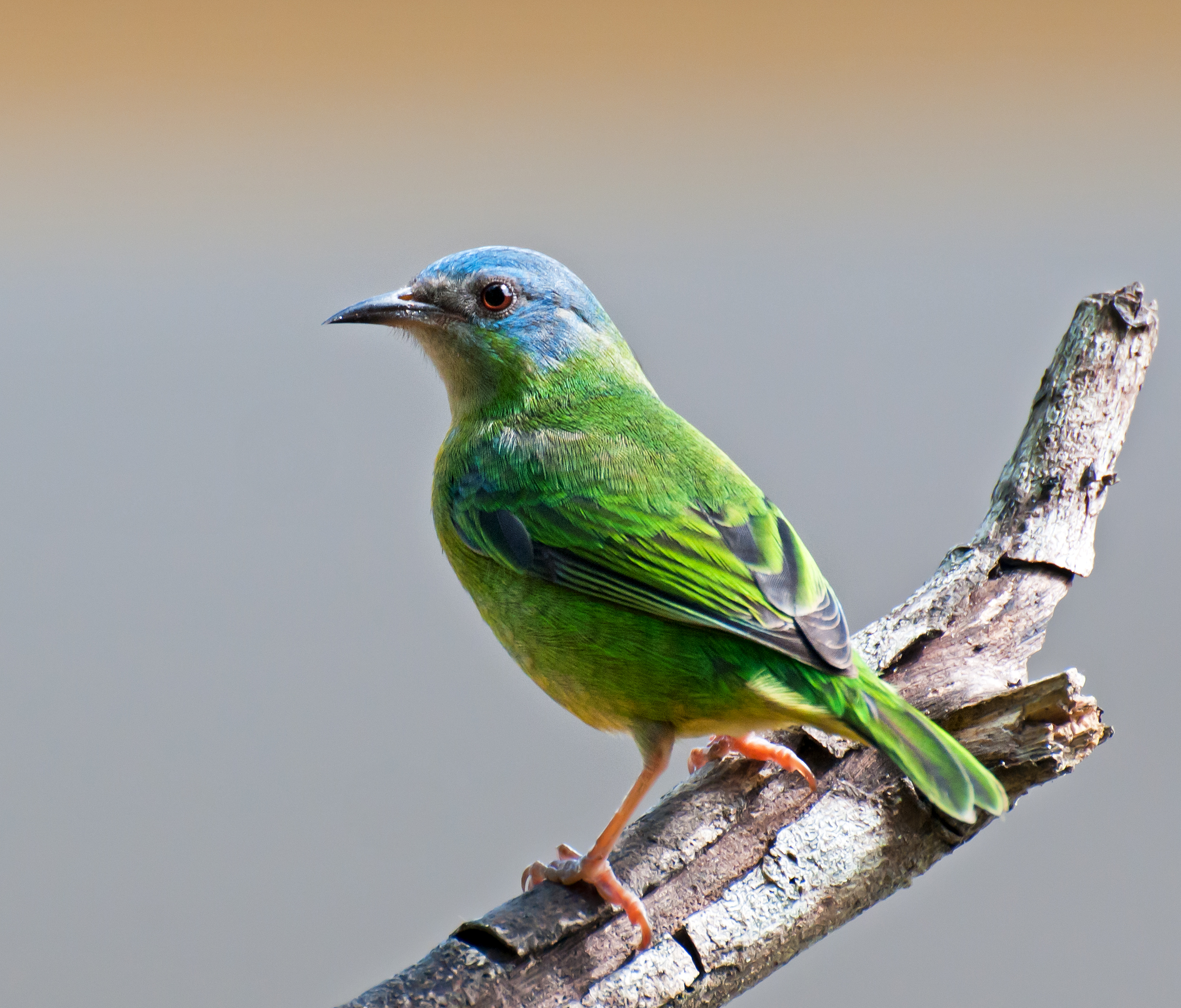 A female Blue Dacnis in Registro, São Paulo, Brazil.